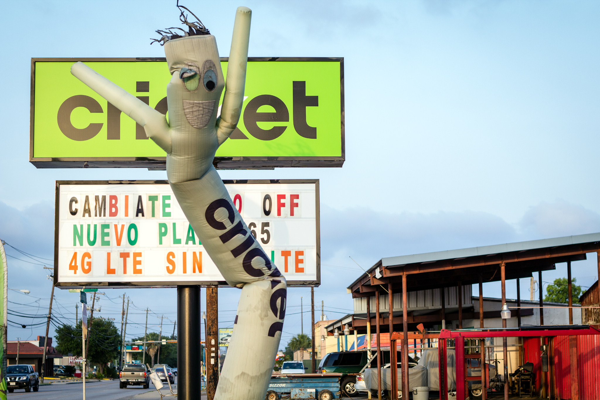 Inflatable man in Pasadena, Texas